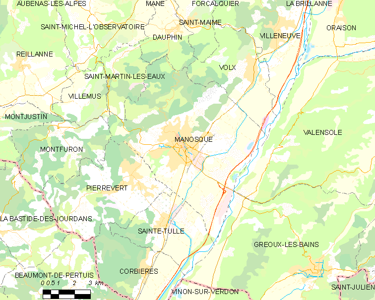 Map commune FR insee code 04112.png Légende